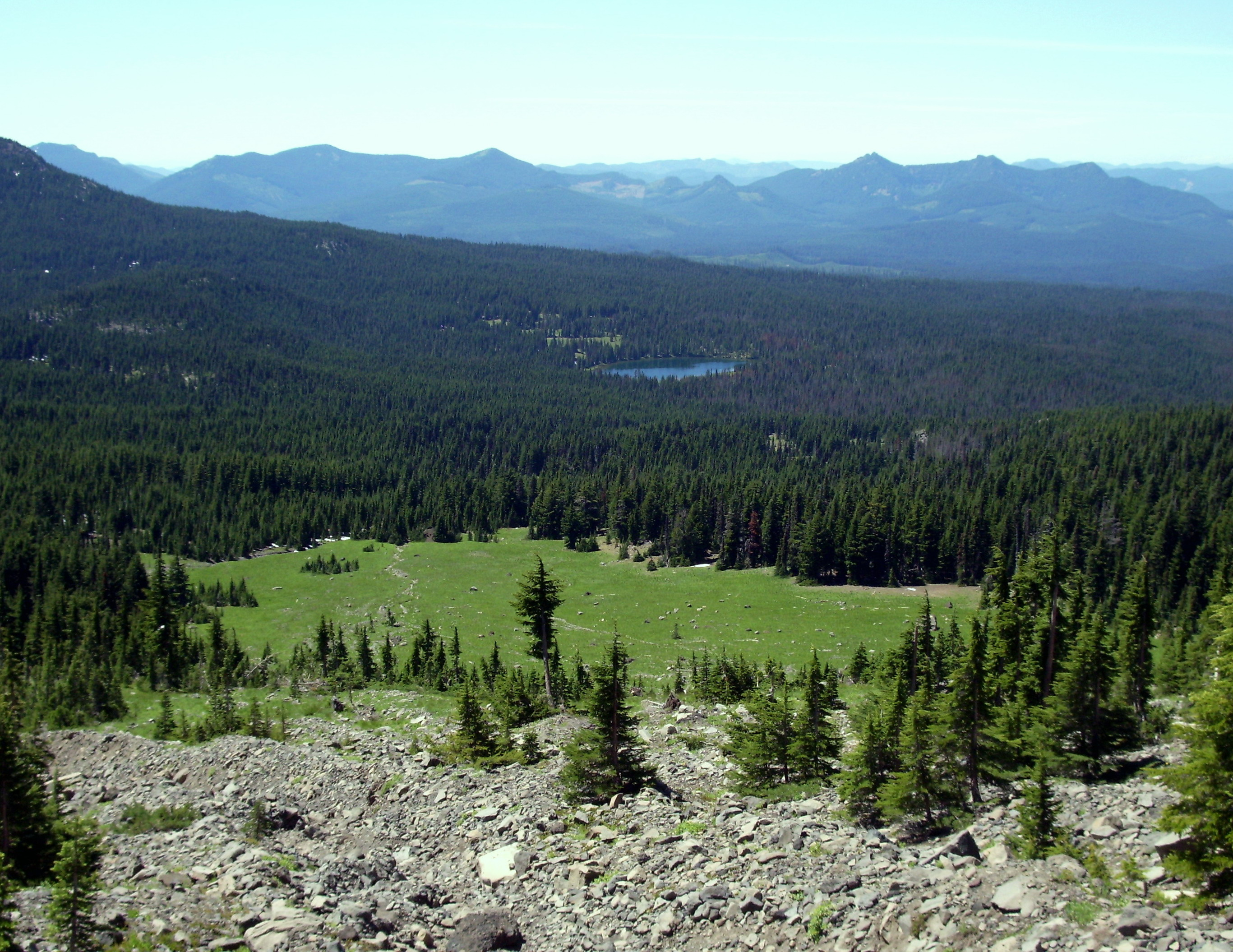 Santiam Lake, headwaters of the North Santiam River, as seen from the west base of Three Fingered Jack (about 1.5 miles east) on the Pacific Crest Trail. The meadow in the foreground extends from Three Fingered Jack; the rocky portions are streambeds of intermittent spring runoff torrents. The partially visible rise at left edge is Maxwell Butte (6229 ft/1899 m). The range of foothills in the distance (right to left) include the Three Pyramids (18 km distant), Crescent Mountain, and Echo Mountain.